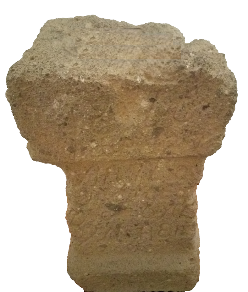 Roman votive altar from castra of Hoghiz